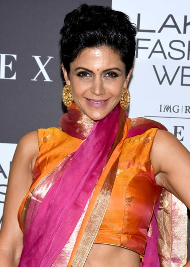 Mandira Bedi on Day 3 of Lakme Fashion Week 2017.